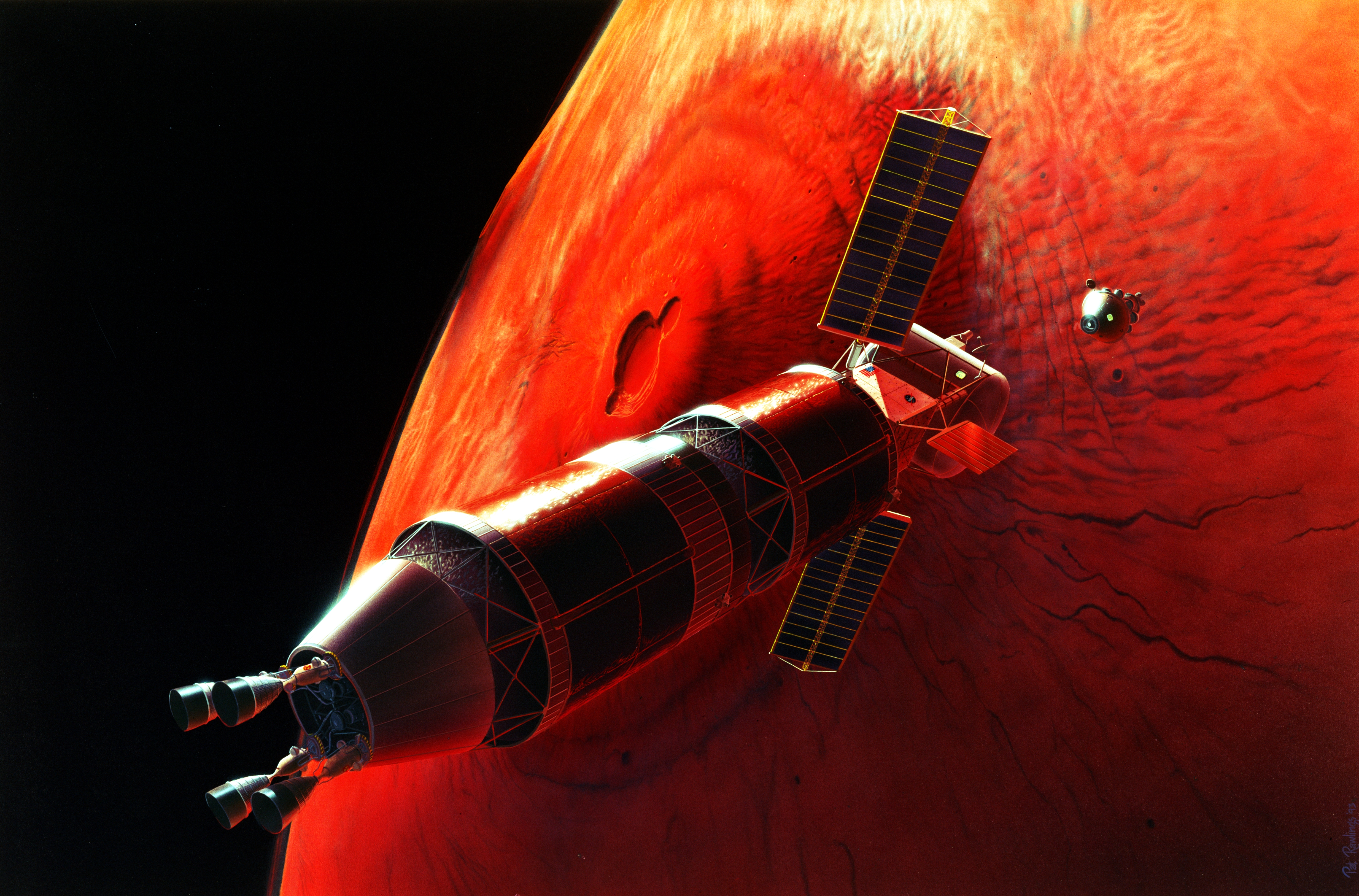 Approximately 200 kilometers above the Martian surface, a nuclear thermal propulsion transfer vehicle and the ascent stage of a two-stage Mars lander prepare to rendezvous. The vehicle's nuclear reactors also serve as the primary onboard electrical power source with solar arrays providing backup power. Looming behind the spacecraft, the enormous shield volcano, Ascraeus Mons, rises through early morning clouds with the caldera at its peak eventually reaching above Mars' tenuous atmosphere. Artist concept.